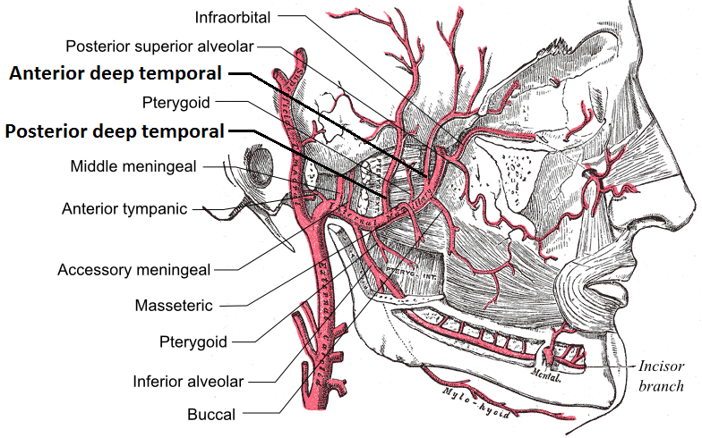 Branches of the maxillary artery